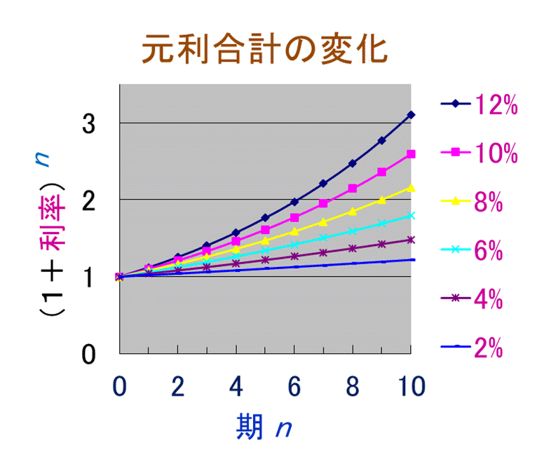 A graph of compound interests